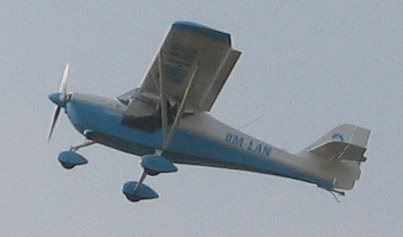 Eurofox ultralight aircraft